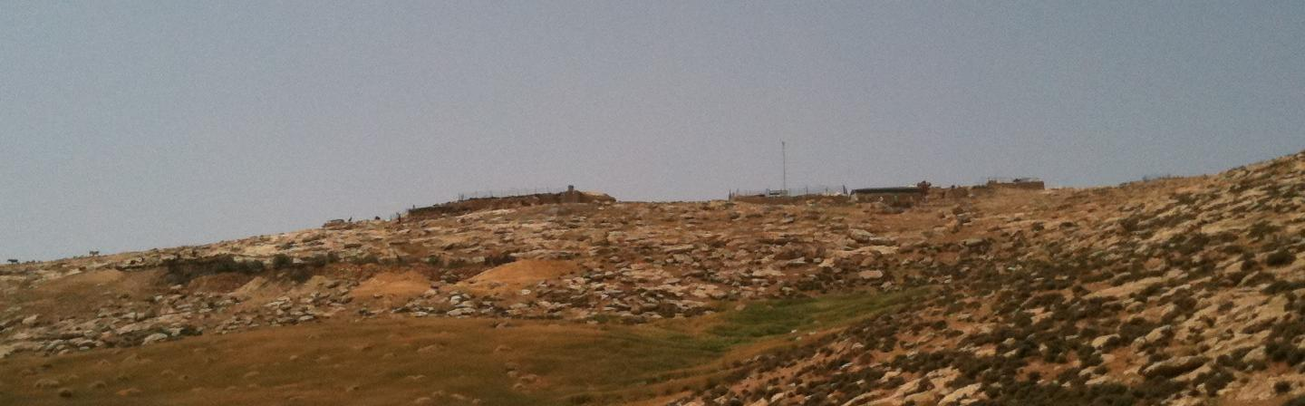 Bedouine village in south Mt. Hebron, West Bank. Long 35 10' 31 Lat 31 24' 28. The pole seen in the photo is a wind turbine which provides electricity to the village (which is not connected to any regular power grid).